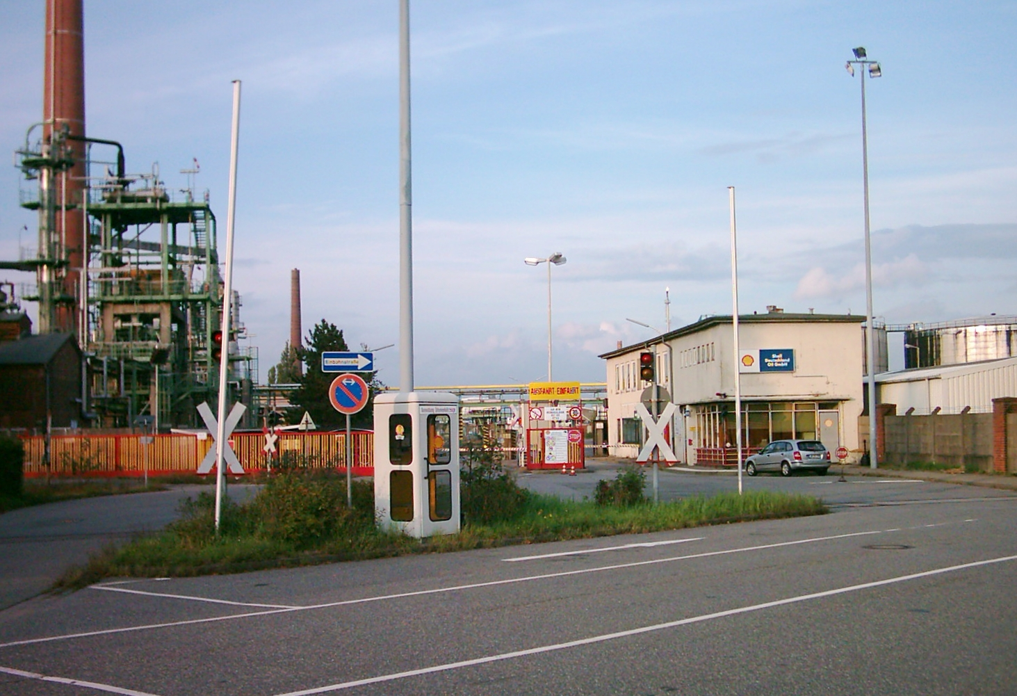 Shell refinery Hamburg-Harburg, Germany.